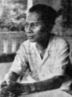 Sutan Sjahrir, first prime minister of Indonesia